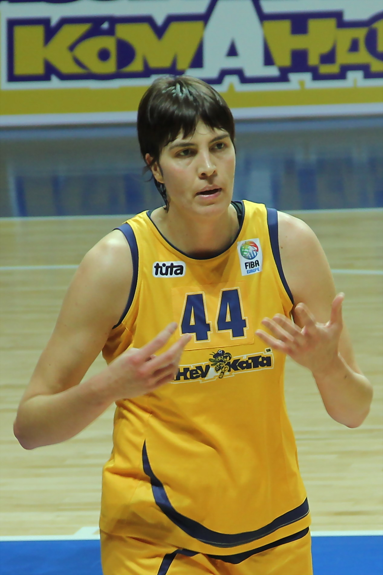 Russia, Vologda, Yelena Baranova in game «Vologda-Chevakata» vs «Lotto Young Cats»